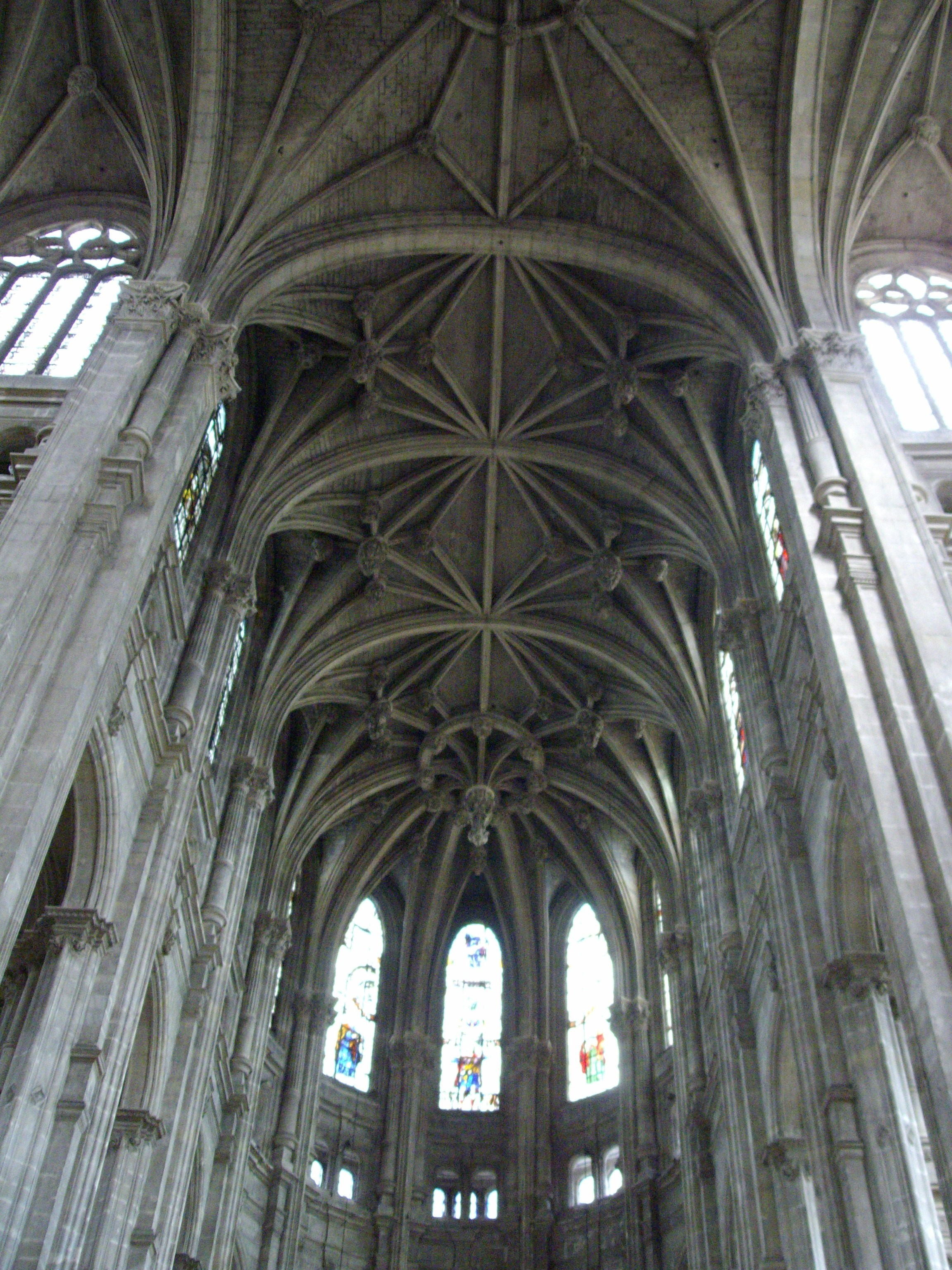 The Église Saint-Eustache of Paris (France)